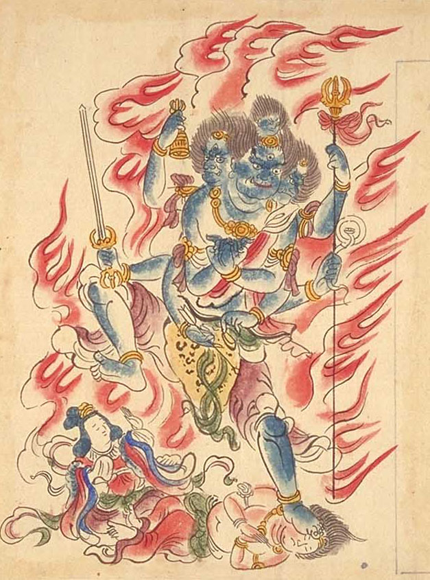 Gōzanze Myōō, Buddhist deities of Japan